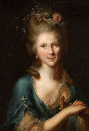 Portrait of Philippine Engelhard (1756-1831), German writer